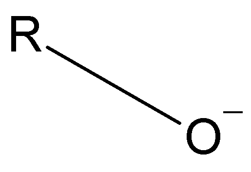 Comments High-resolution black/white .PNG made with ChemSketch and Photoshop — see WikiProject Chemistry - structure drawing for detailed instructions. Please drop me a note if you need the source file. Category:Chemical structures (Original text: Chemical structure of Alkoxide)